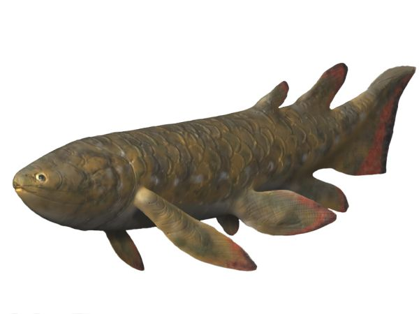 Holoptychius sp., Late Devonian. Digital.